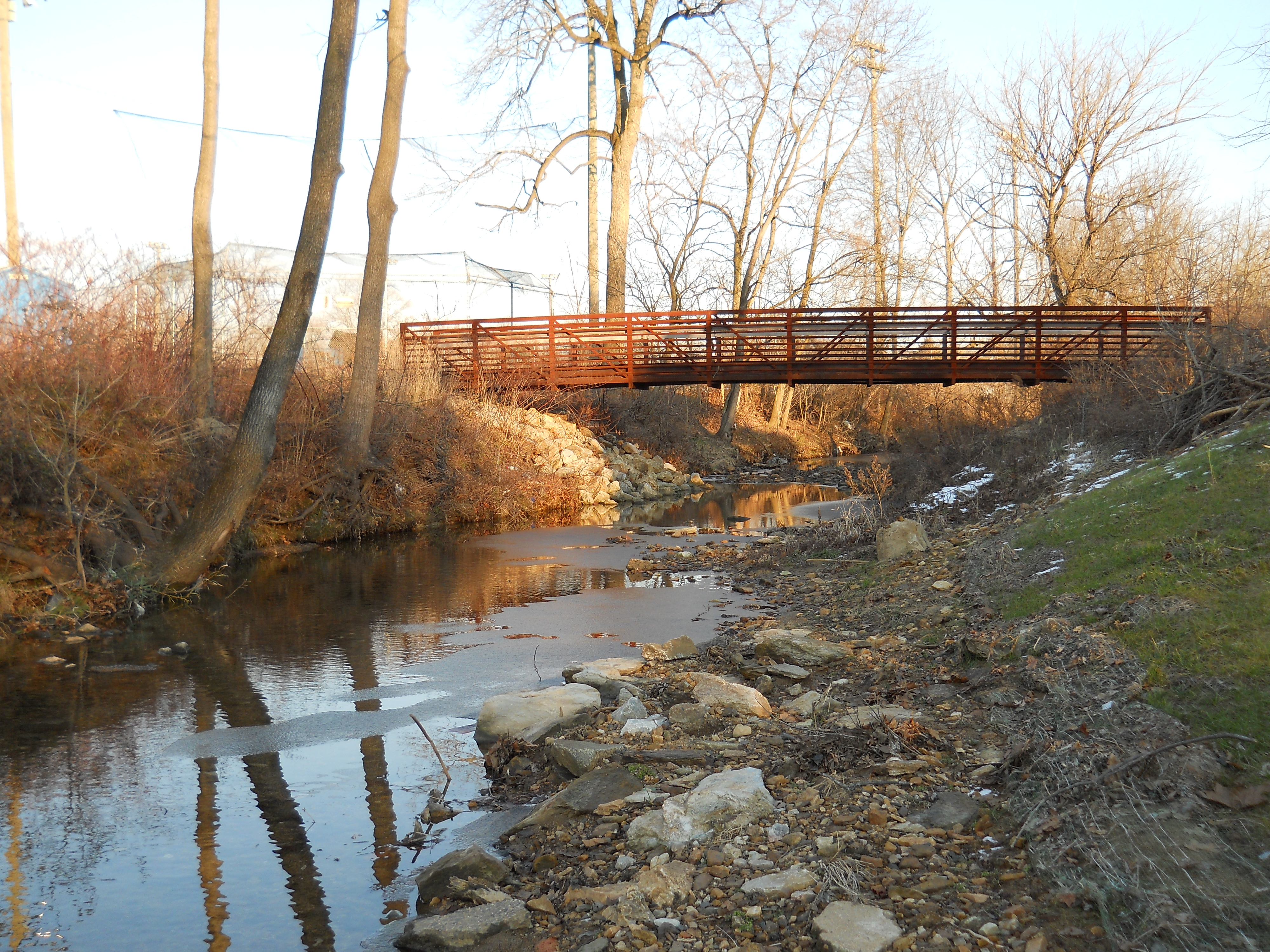 Sady Run, a tributary to the Wissahickon Creek, in Roslyn Park, Roslyn, Montgomery County, PA. Bridge over Sandy Run in the Roslyn Park.